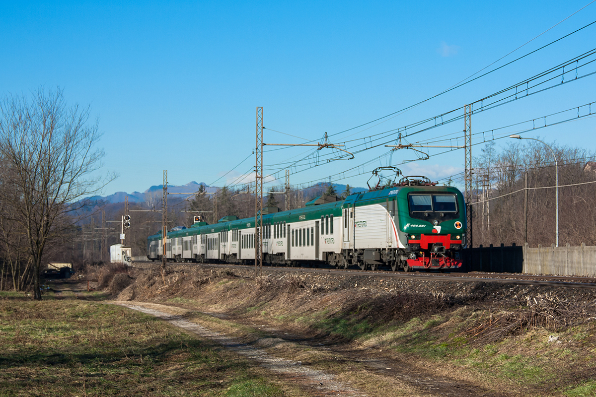 A S11 train painted with TRENORD livery.